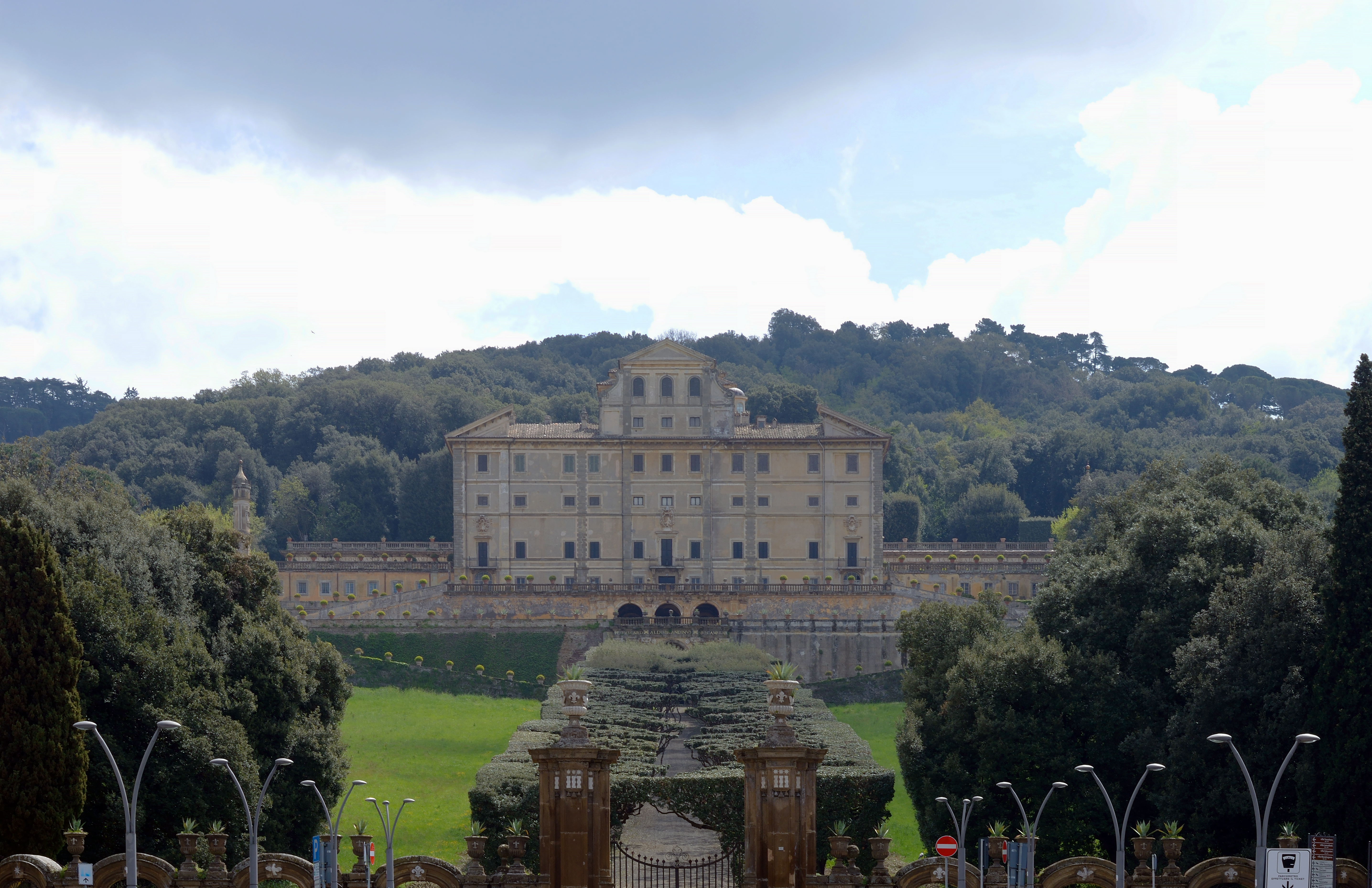 Villa Aldobrandini (Frascati)